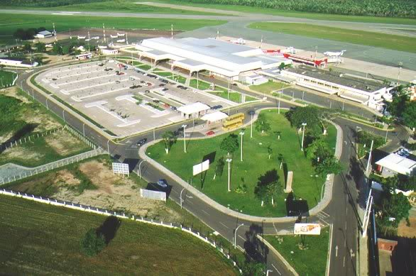 Airport